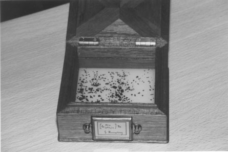 Crystals of cis-bis(ethylenediamine)dinitrocobalt(III) bromide taken from the original sample in the Alfred Werner collection at the University of Zürich. The label on the display box is a facsimile of the original label from 1901. The compound and the crystals were prepared by Edith Humphrey of London in the course of her research and are first described in her Ph.D. thesis entitled "Über die Bindungsstelle der Metalle in ihren Verbindungen und über Dinitritoäthylendiaminkobaltisalze". Her work was undertaken around 1900 at the University of Zürich in the laboratories of Alfred Werner. Although not recognised at the time, the formation of enantiomorphic crystals in this way represented the first synthesis of optically active octahedral cobalt complexes. This box is on display in the Royal Society of Chemistry, Burlington House, Piccadilly, London W1J 0BA